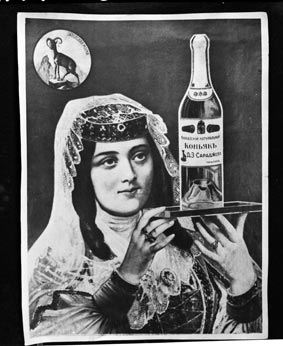 An advertisement for the Sarajishvili cognac featuring Princess Barbare (Babo) Bagration-Davitishvili. Photographed by Alexander Roinishvili.